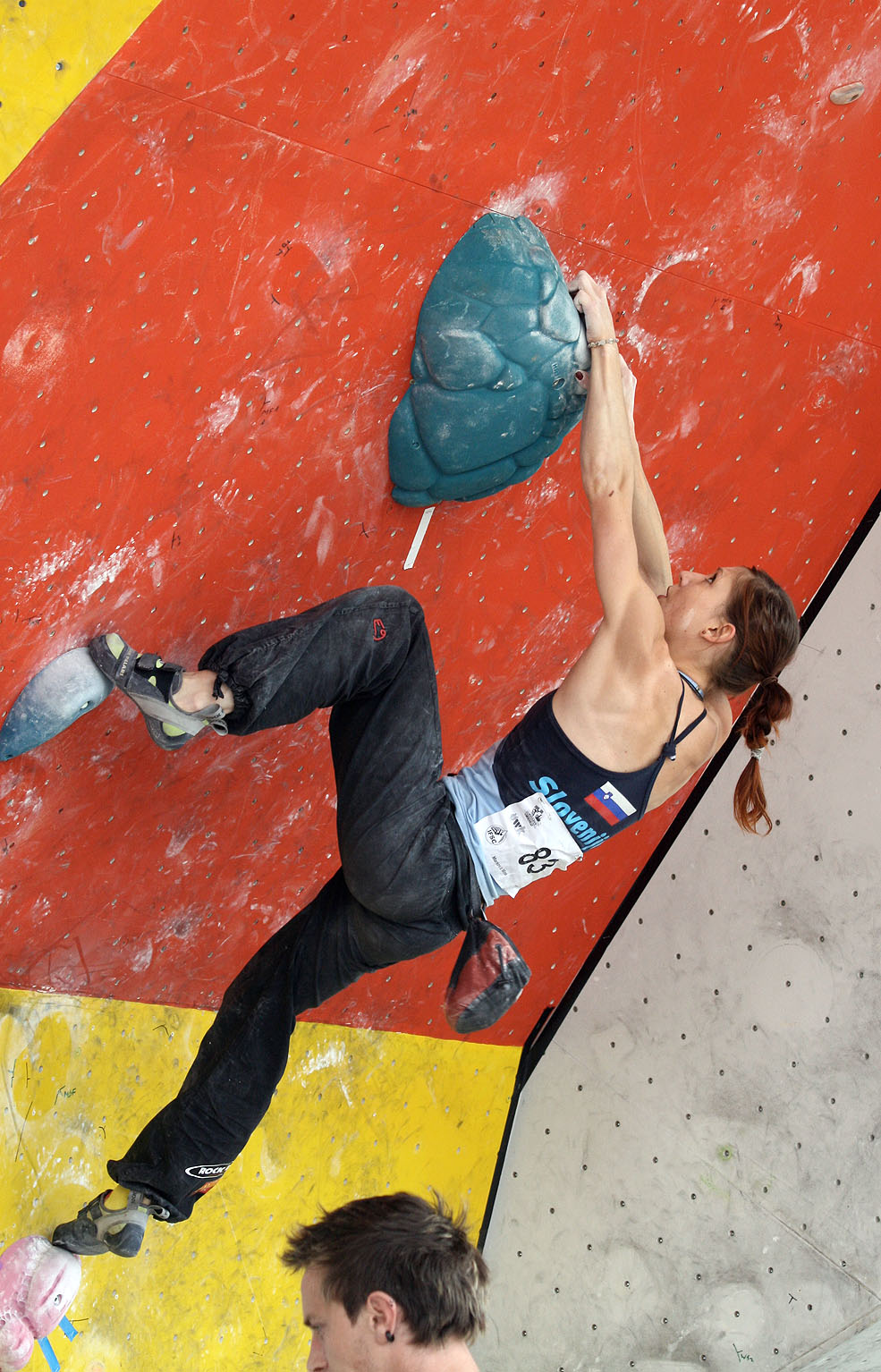 Mina Markovič during the semi-finals at the IFSC Boulder Worldcup Vienna 2010.